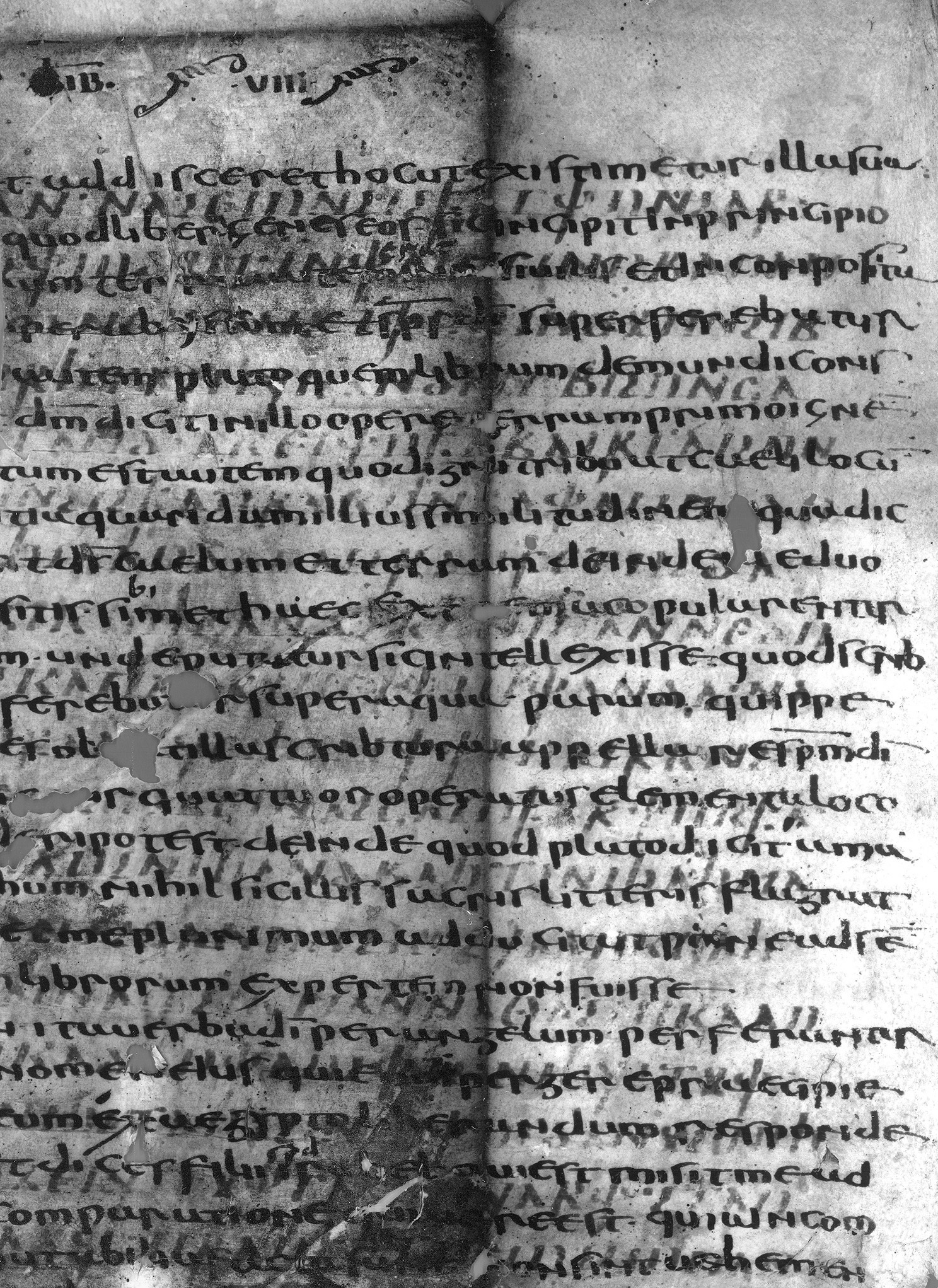 Gothica Boroniensia, palimpsest, the lower text contains homilia in Gothic, the upper text contains "De Civitate Dei" of Augustin.